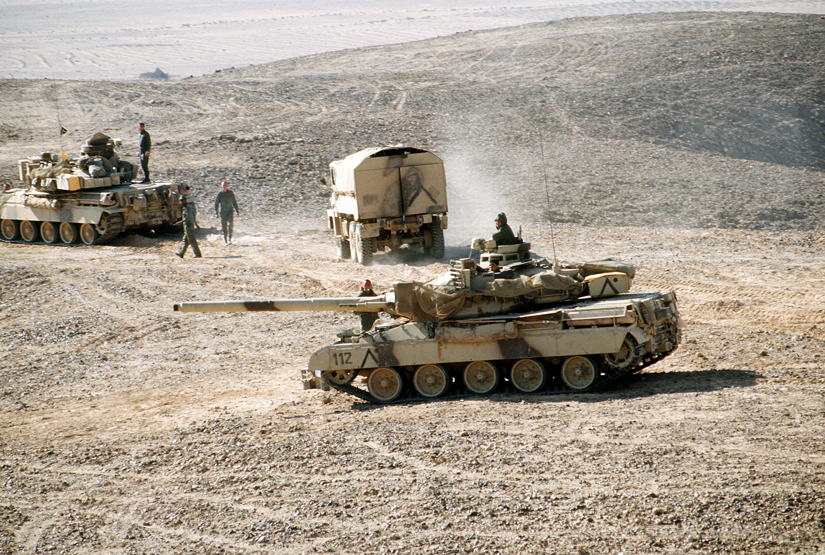 A pair of AMX-30 main battle tanks and a TRM-2000 truck of the French 6th Light Armored Division pause outside Al-Salman during Operation Desert Storm.